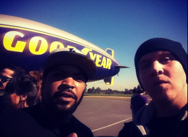 Ice Cube and Donovan Strain at the Good Year Blimp Airport 2014 event celebrating the "Good Day"